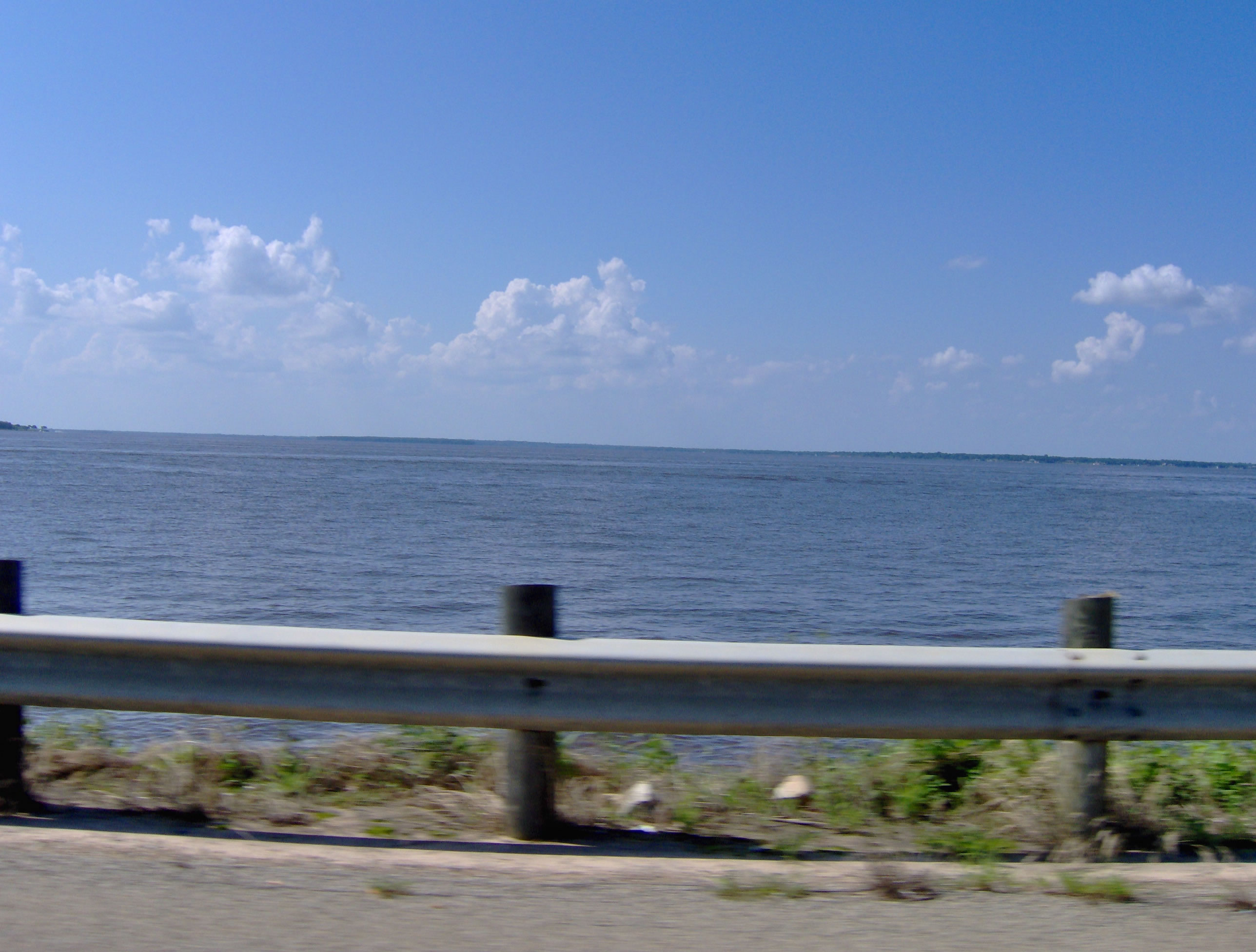 Looking North on Cedar Creek Reservoir. Summary Looking North on Cedar Creek Reservoir.